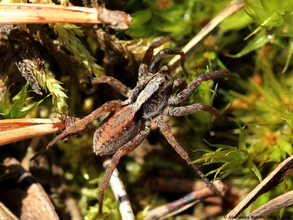 Alopecosa aculeata